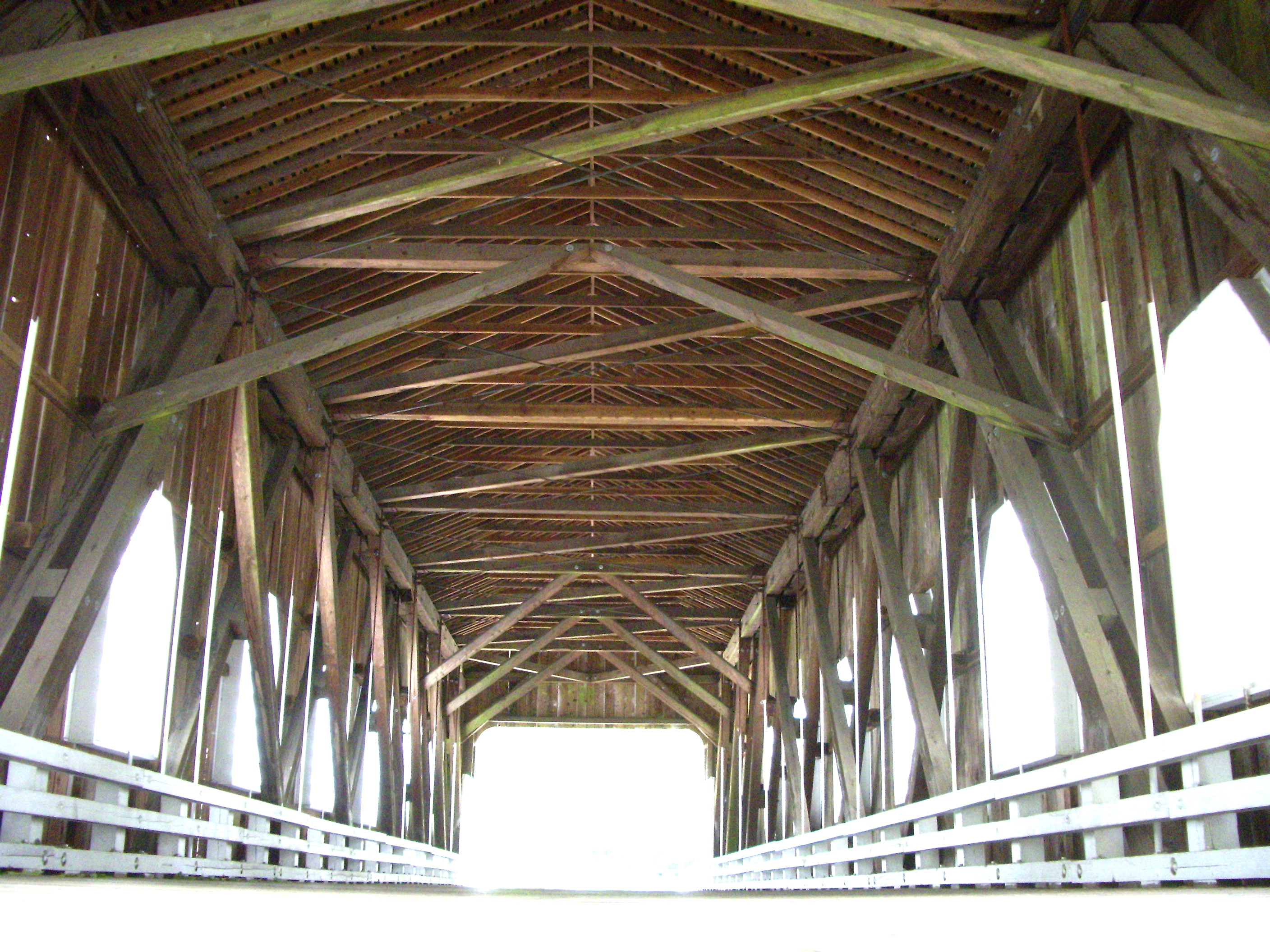 Interior of Belknap covered Bridge near Rainbow, Oregon across the McKenzie River